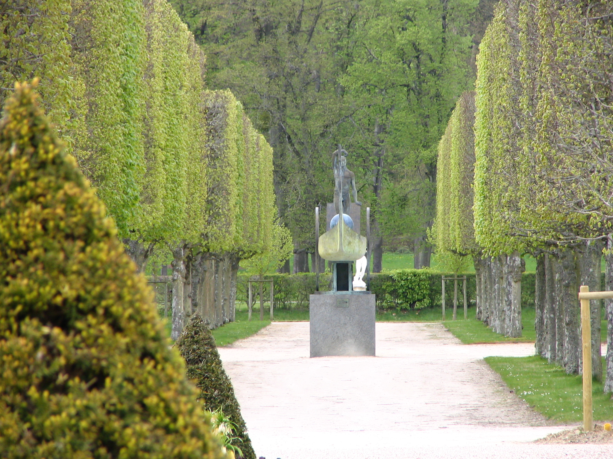 Alley of the parc of Domain of Rambouillet